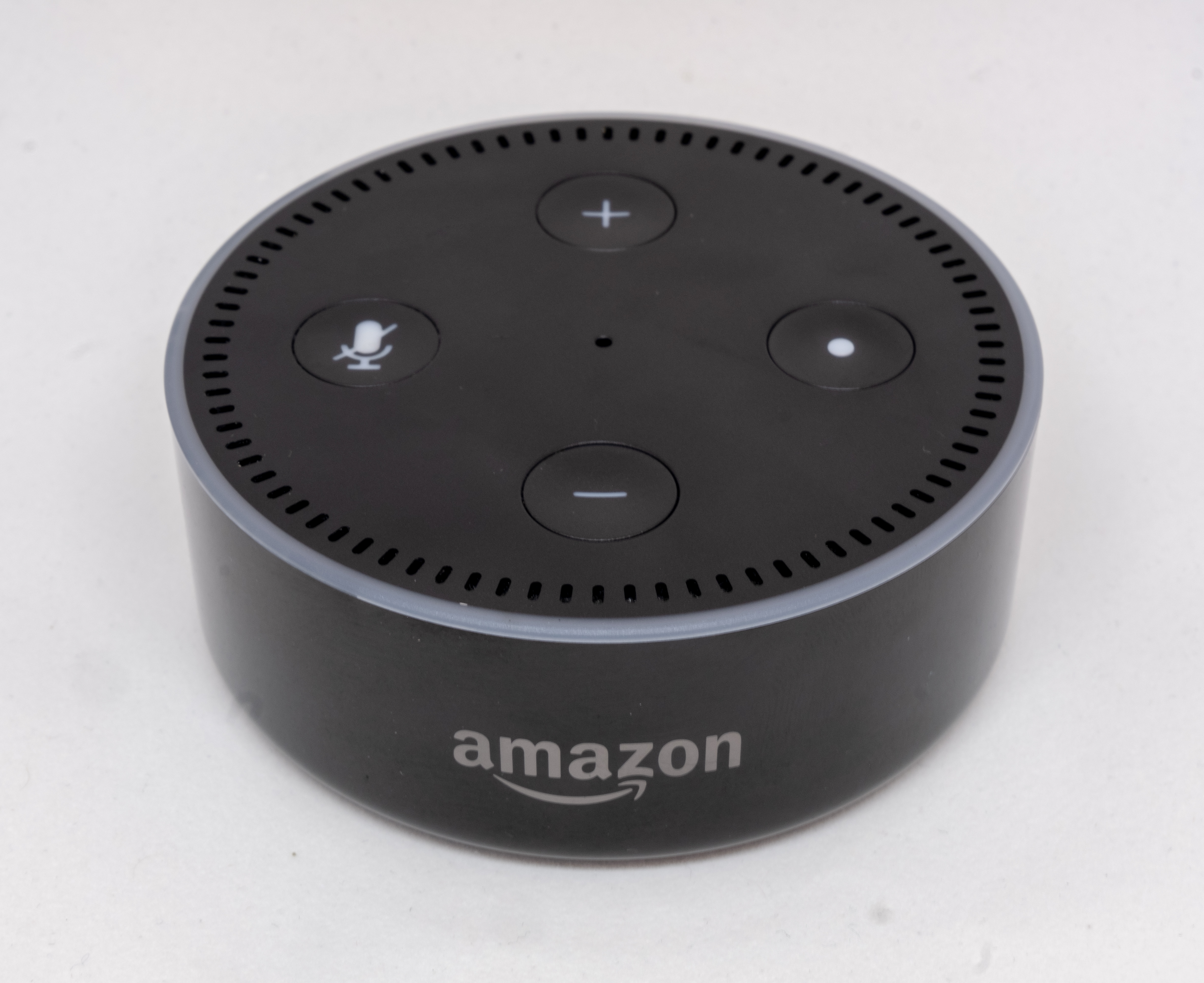 Amazon Echo Dot - black model